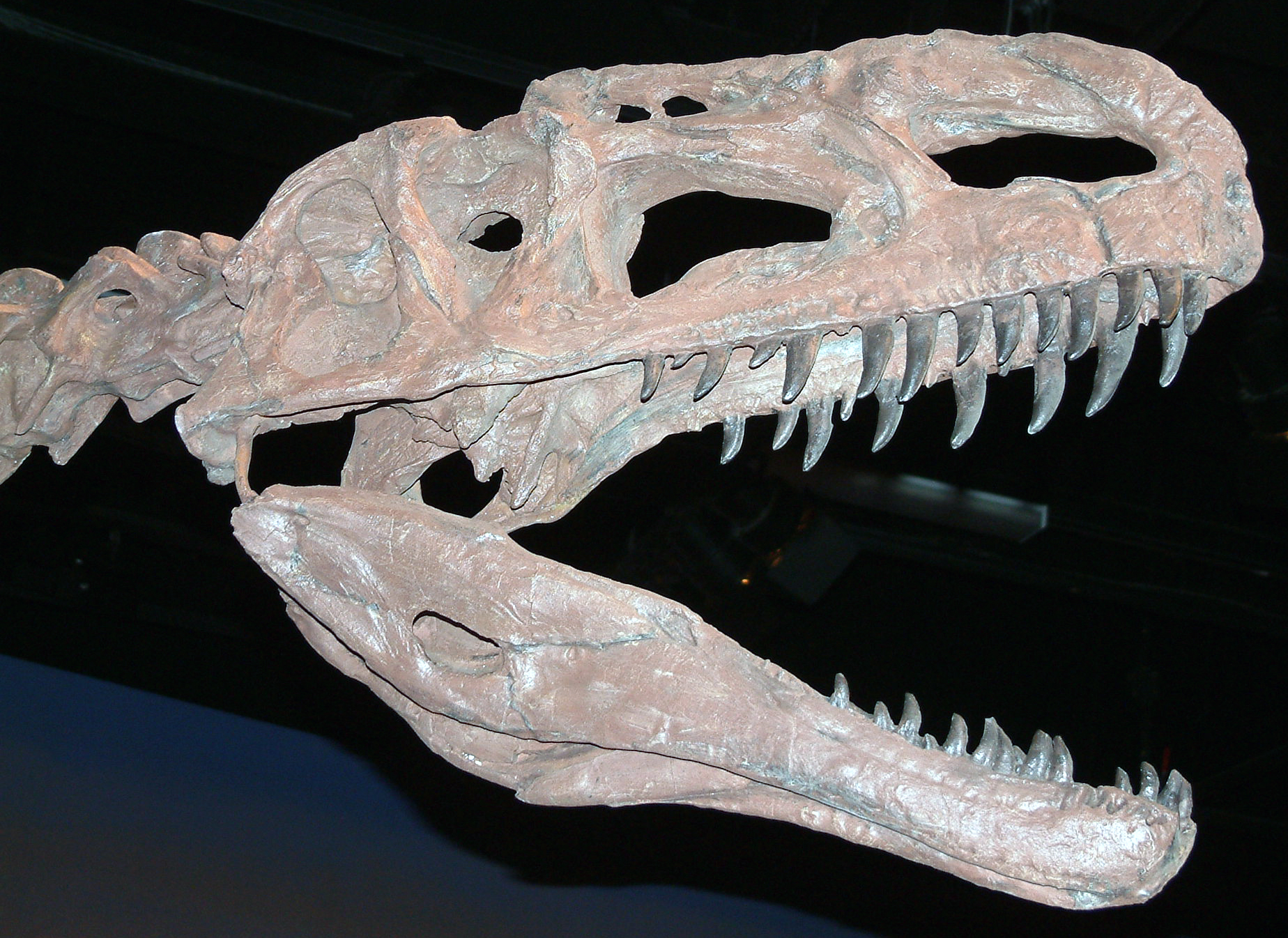 Monolophosaurus jiangi Zhao & Currie, 1993 theropod dinosaur (reconstruction) from the Jurassic of China (public display, British Columbia Royal Museum, Victoria, British Columbia, Canada) (reconstruction based on IVPP 84019, Institute of Vertebrate Paleontology and Paleoanthropology, Beijing, China) (photo taken & donated by Cary Easterday). Classification: Animalia, Chordata, Vertebrata, Dinosauria, Theropoda, Megalosauroidea Stratigraphy: reddish sandstones, upper Wucaiwan Member, lower Shishugou Formation, upper Middle Jurassic Locality: ~34 km northeast of Jiangjunmiao ("General Jiang's Temple", an abandoned desert inn), Gurbantunggut Desert, eastern Junggar Basin, northeastern Xinjiang Province, northwestern China Reference: Zhao Xi-Jin & P.J. Currie. 1993. A large crested theropod from the Jurassic of Xinjiang, People's Republic of China. Canadian Journal of Earth Sciences 30: 2027-2036. Theropod were small to large, bipedal dinosaurs. Almost all known members of the group were carnivorous (predators and/or scavengers). They represent the ancestral group to the birds, and some theropods are known to have had feathers. Some of the most well known dinosaurs to the general public are theropods, such as Tyrannosaurus, Allosaurus, and Spinosaurus.